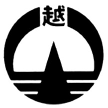 Ogose Saitama chapter